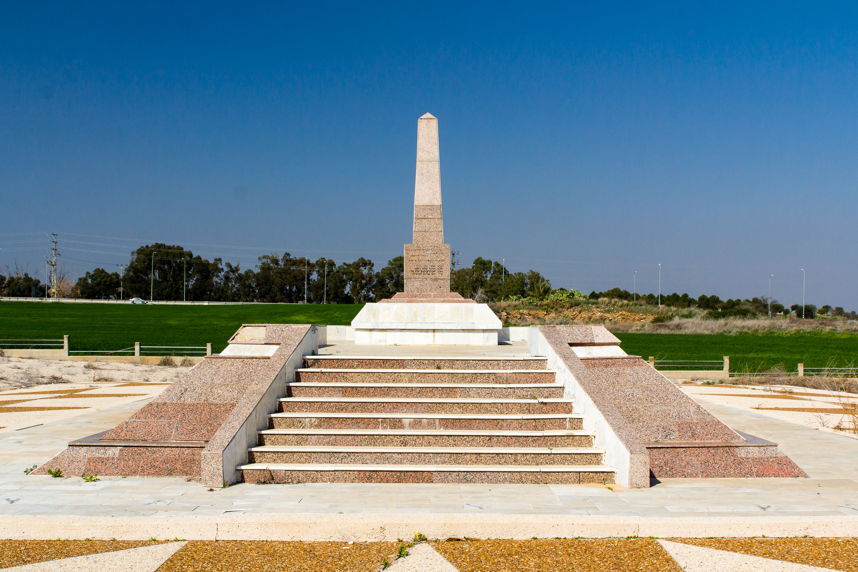 Egyptian army monument near Fort Yoav in southern Israel, commemorating the Egyptian fallen during local battles in the 1948 war